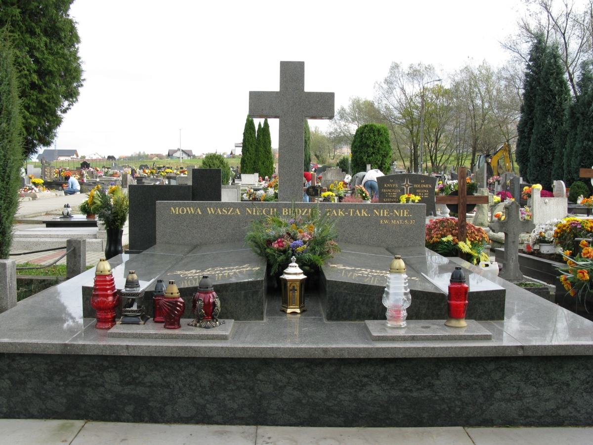 Renovated tomb of Zofia Kossak in Górki Wielkie